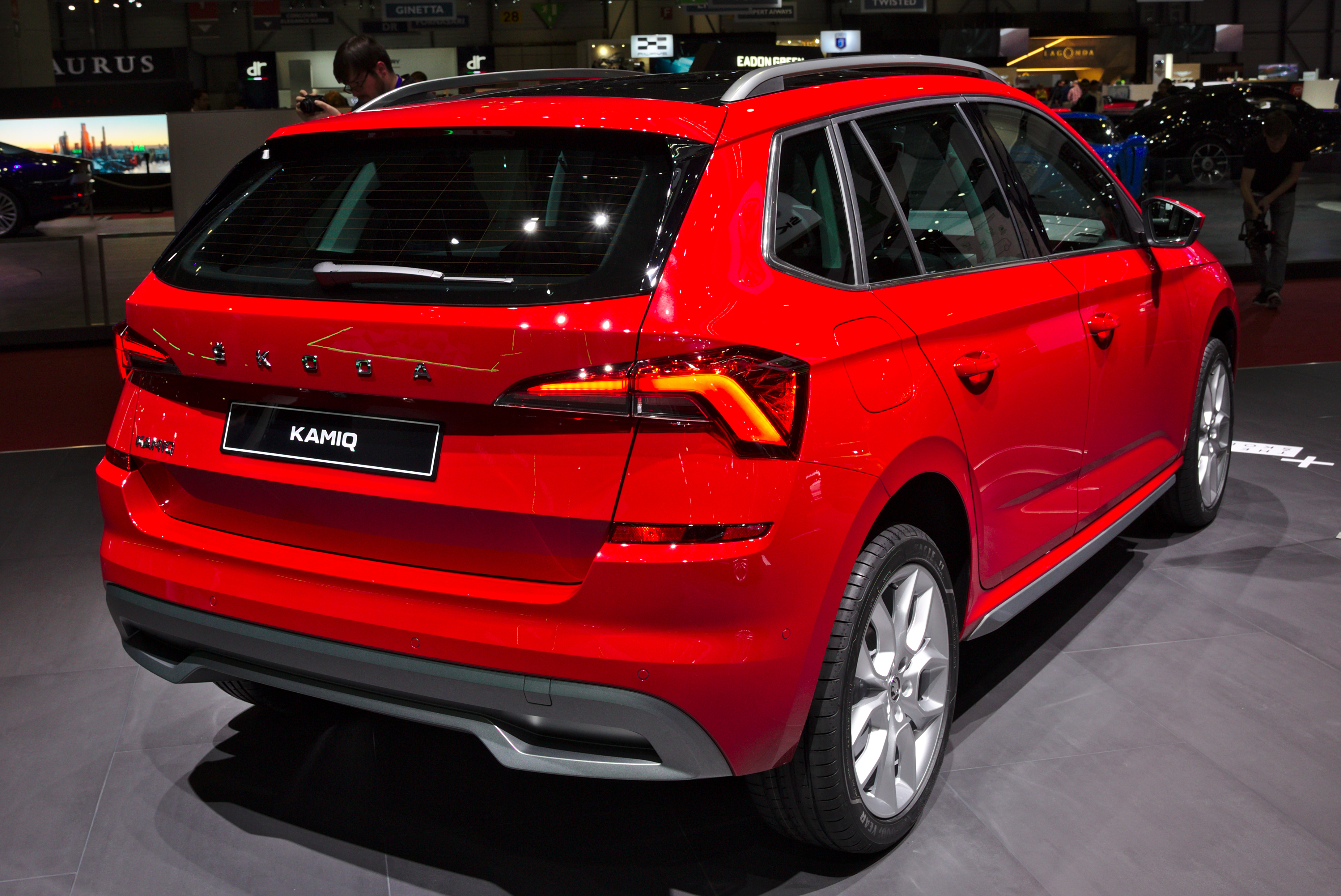 Škoda Kamiq at Geneva Motor Show 2019